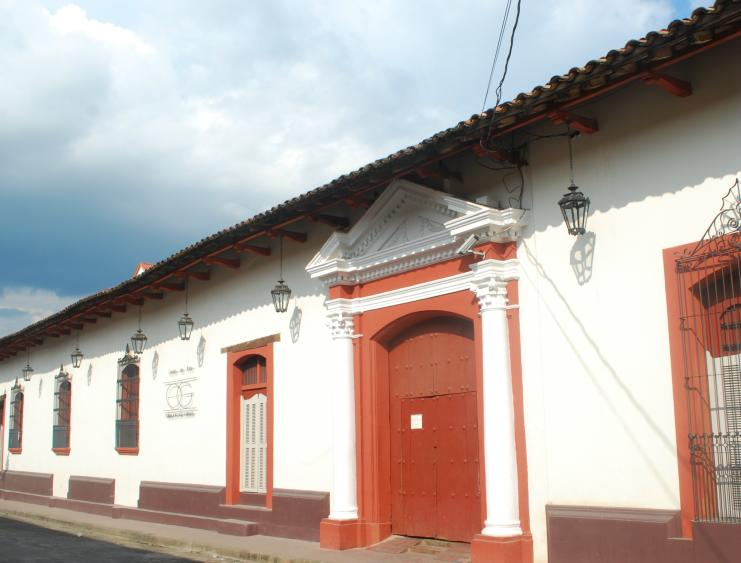 Art museum in old mansion, León Nicaragua.